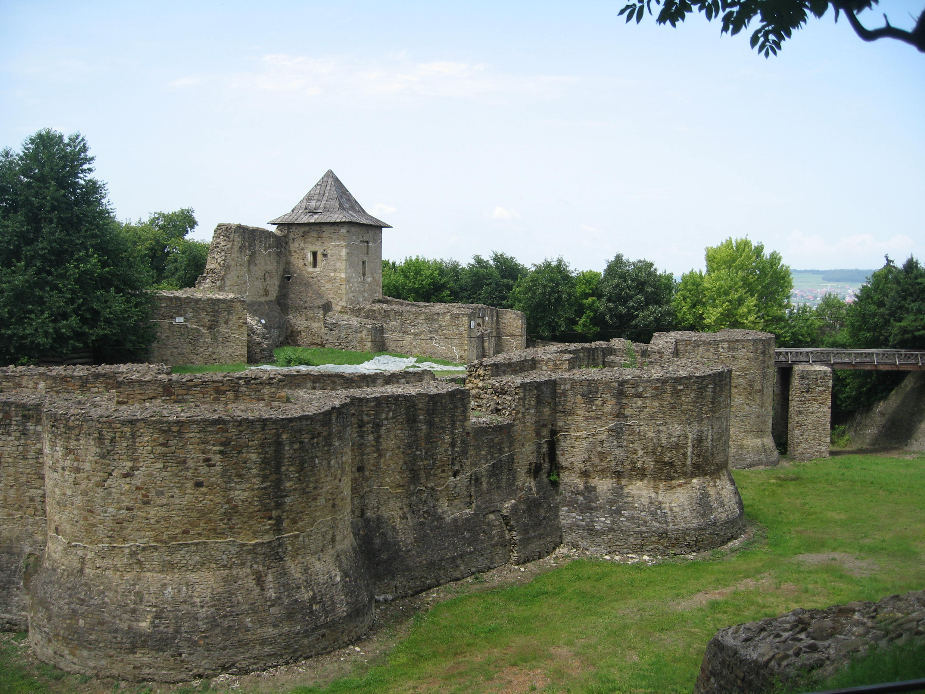 Seat Fortress of Suceava – the eastern part.